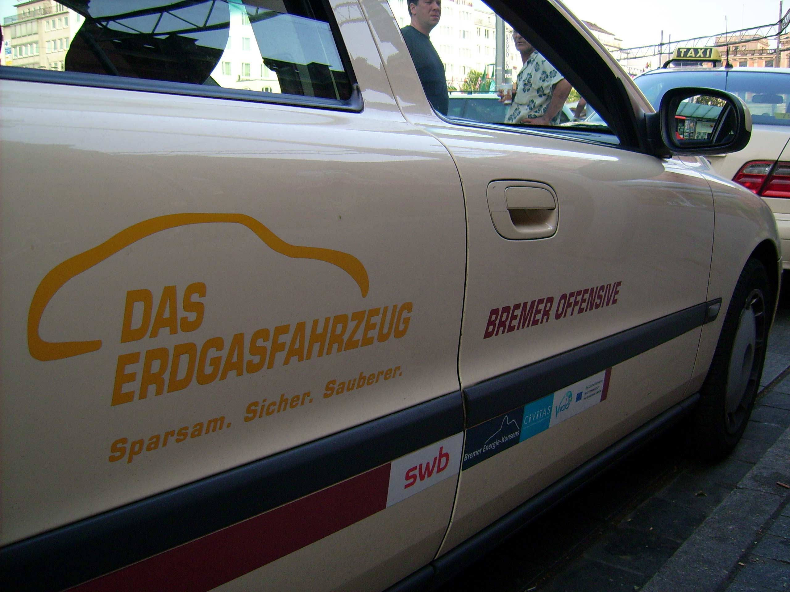 eigenes Foto, Bremen hauptbahnhof photo taken by myself